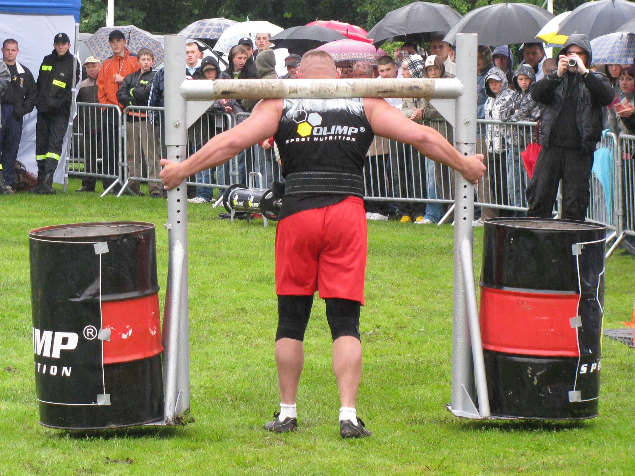 Strongmen event: Yoke Walk, Heavy Yoke, Super Yoke.